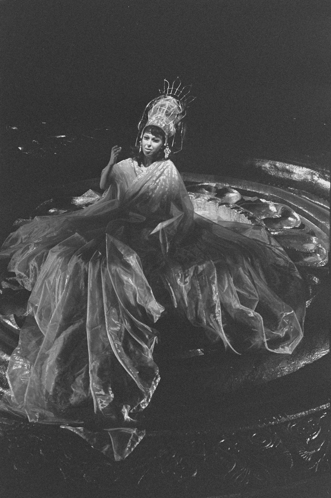 Hungarian-German soprano Sylvia Geszty as Cleopatra in Händel's "Giulio Cesare in Egitto", Berlin, 1970. Pisarek, Abraham: Scenes from "Julius Caesar", Musical drama in three acts by Georg Friedrich Händel with text by Nicola Francesco Haym. German State Opera Berlin, dress rehearsal 07.05.1970 and premiere 09.05.1970, 1970.05.07 / 1970.05.09 Series: Julius Caesar Description: With Theo Adam in the title role, Peter Schreier as Sextus, Sylvia Geszty as Cleopatra and others PERSONS AND CORPORATIONS: Presentation: German State Opera Berlin LOCATION: Performance Location: Berlin Add to Favorites PERMALINK: Author of the metadata: German Photo Library